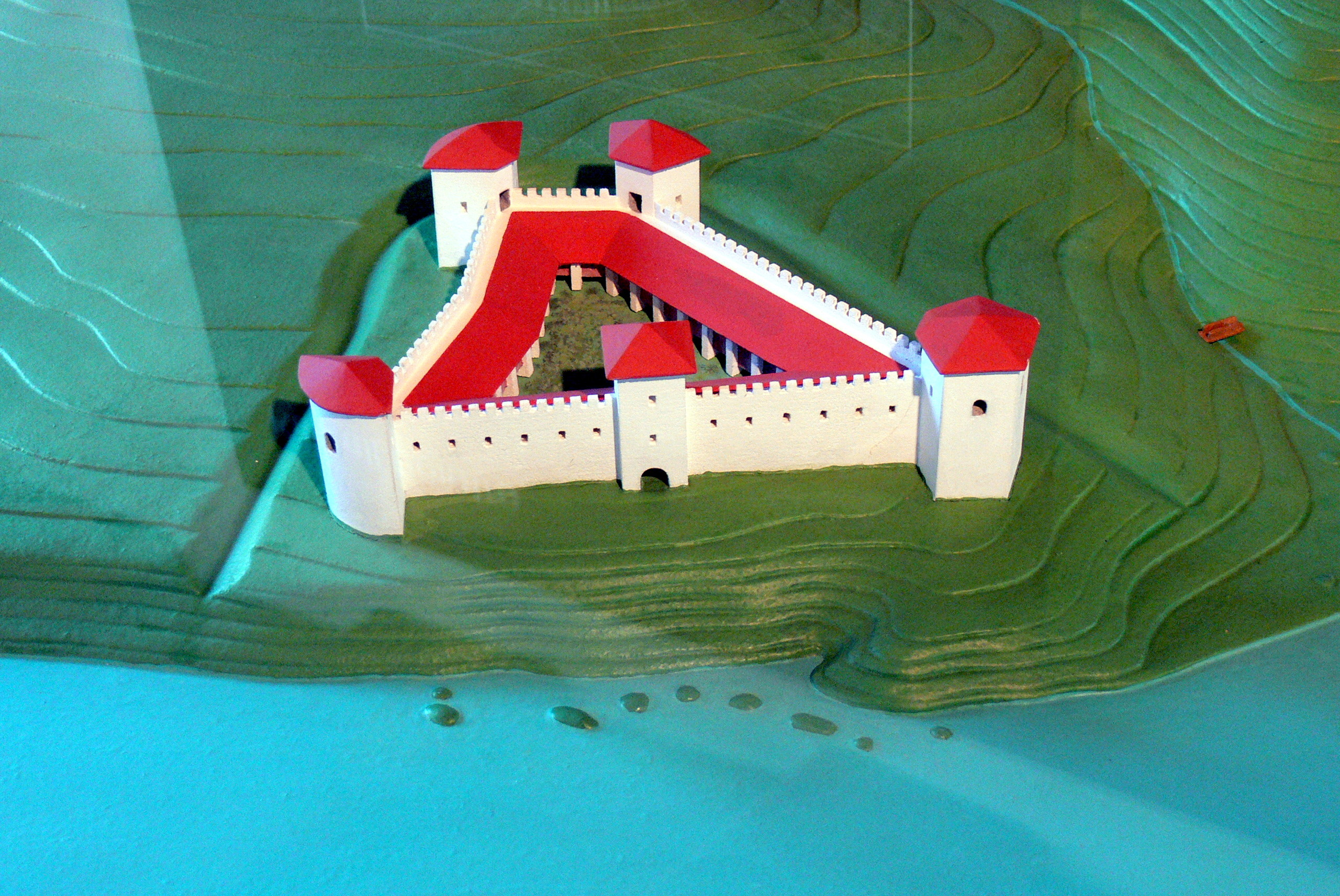 Roman museum Kastell Boiotro ( Passau ). Model of the late Roman fort called Boiotro.